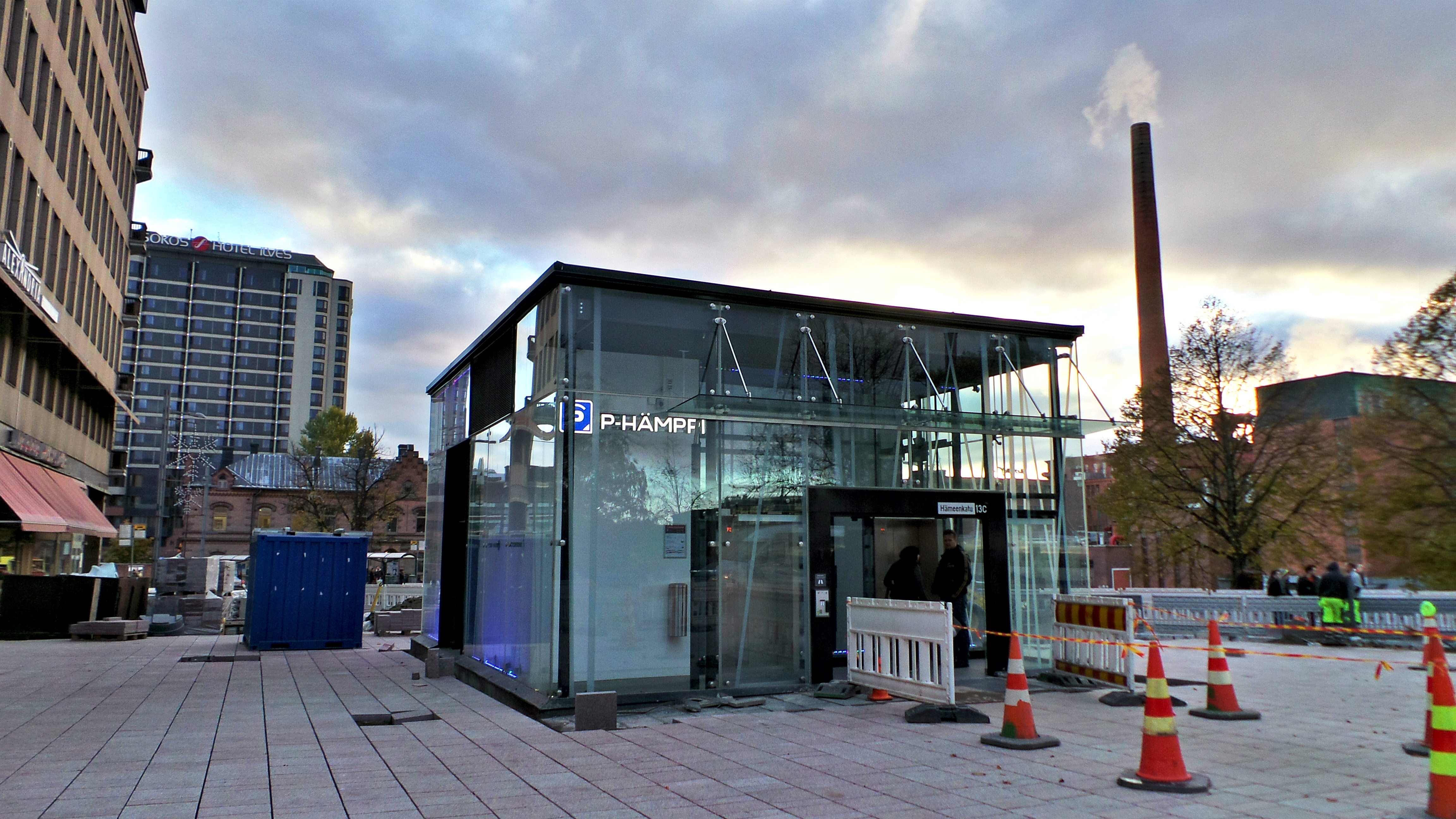 Elevator near Koskipuisto in Kyttälä